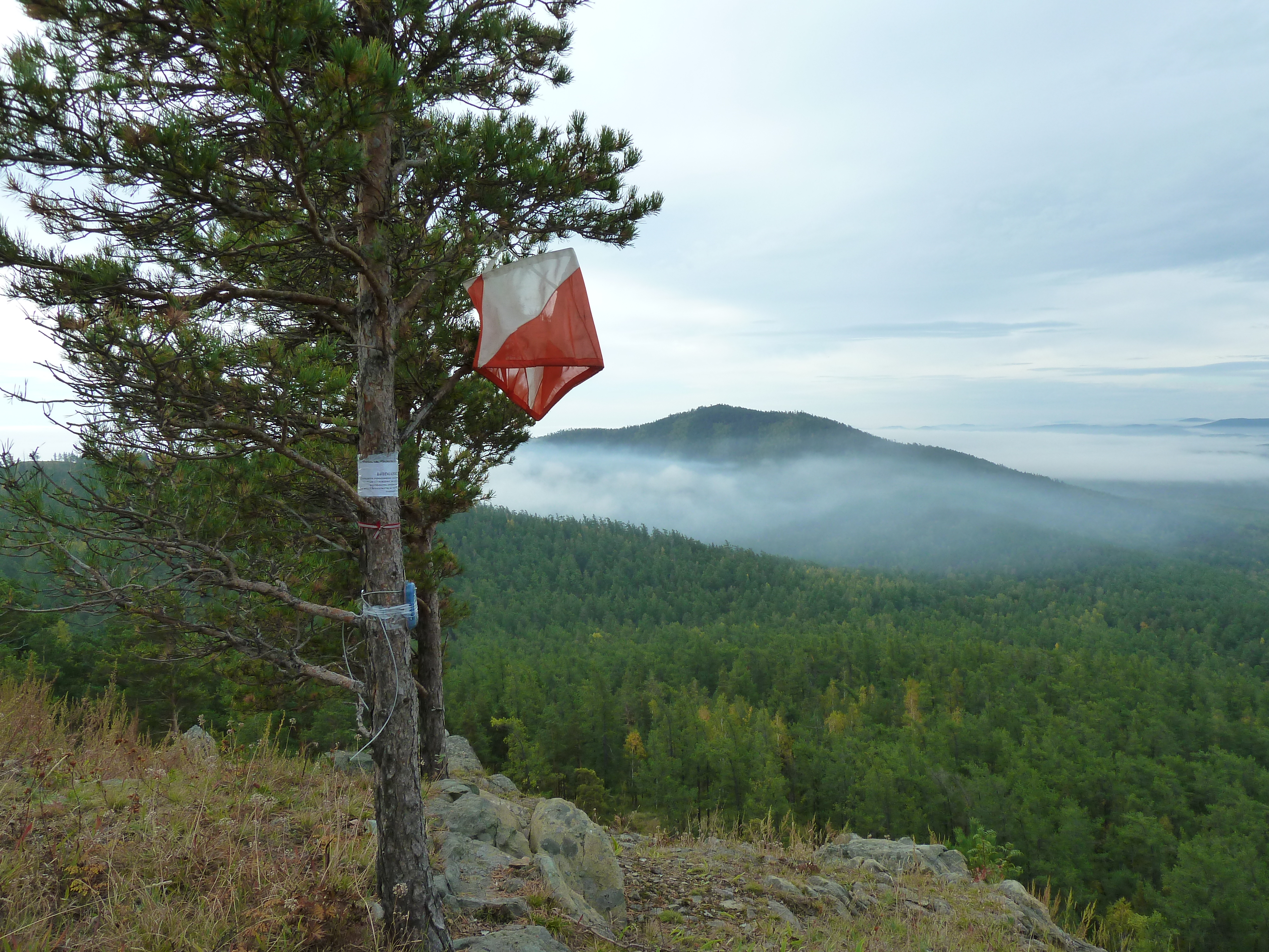 8th Russian Rogaining Championships 2011, Kyshtym, Chelyabinsk Oblast, Russia, 10 - 11 September 2011. Checkpoint # 90.